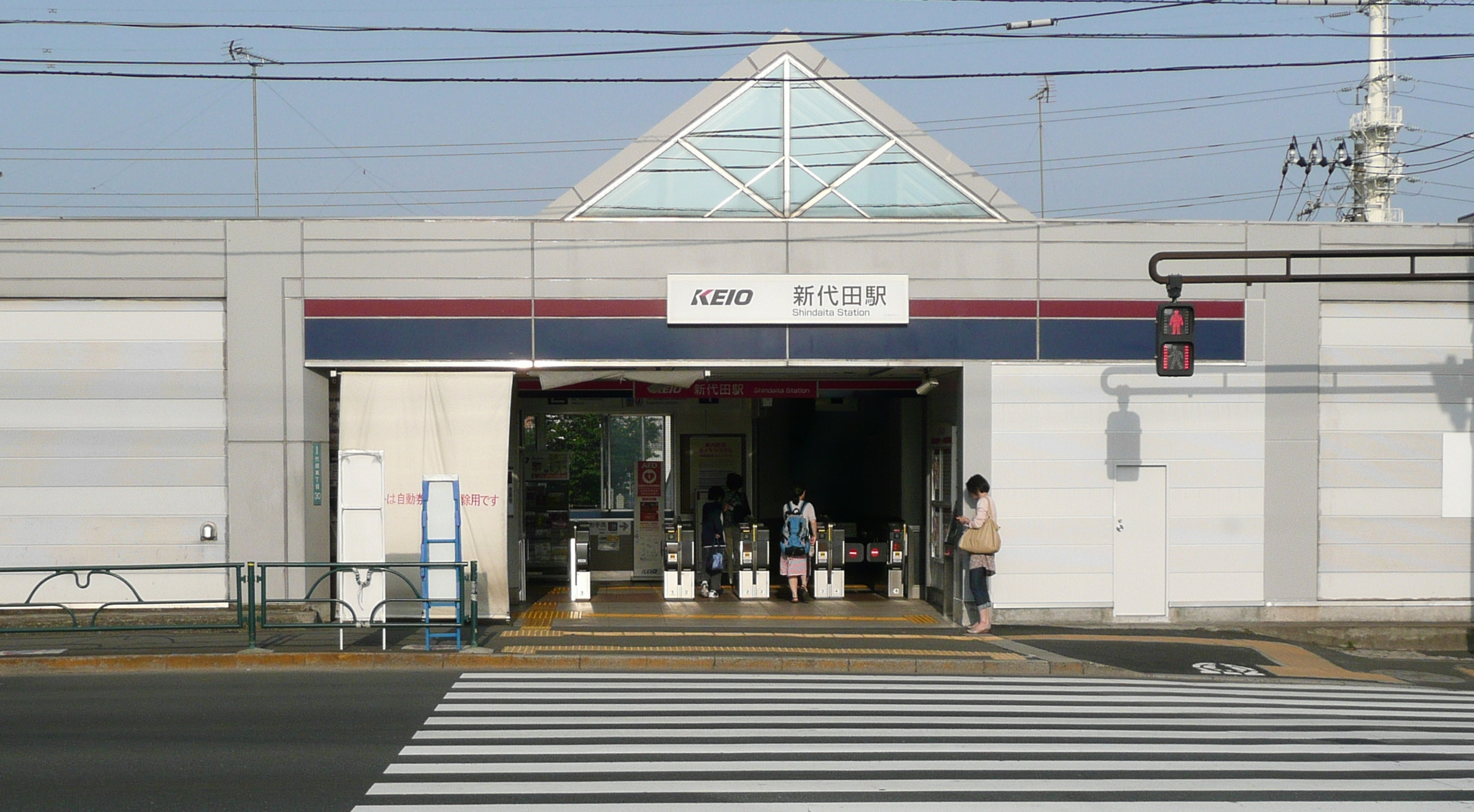 Shin-Daita Station on the Keio Inokashira Line